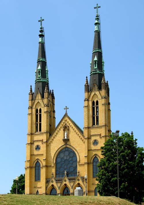 St. Andrew's Roman Catholic Church listed on the National Register of Historic Places in Roanoke, Virginia, USA